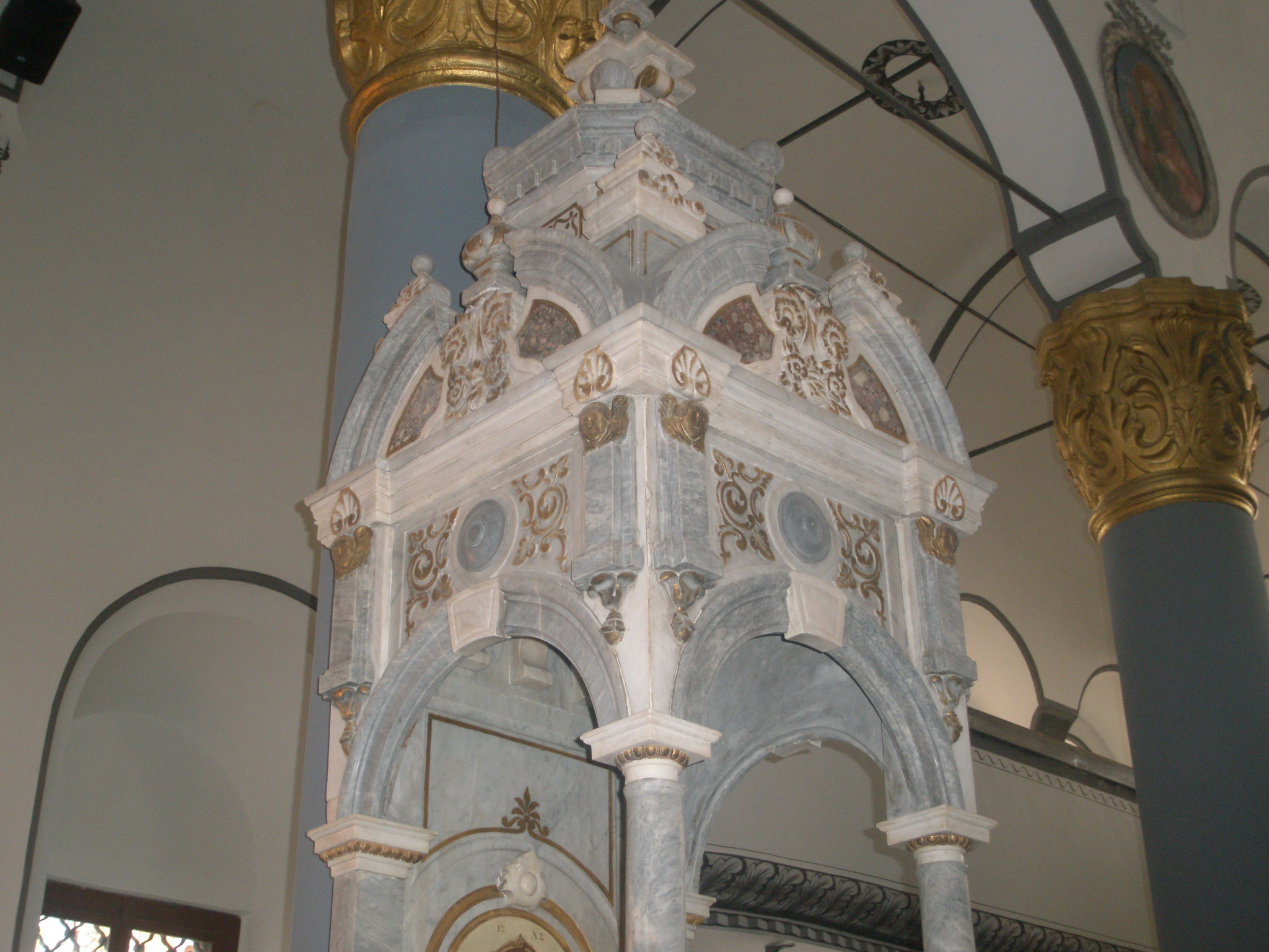 елемент от трона